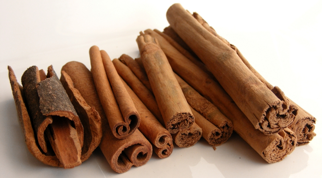 Four kinds/qualities of cinnamon. From left to right: cassia, then cheap cinnamon (probably from Indonesia), pretty decent supermarket cinnamon (probably from Sri Lanka) and the 3 big cigarlike sticks on the right were imported for me, directly from Sri Lanka. So that is supposed to be the top quality of cinnamon. The difference is that the better quality, the more subtile the taste. The cheap cinnamon (second from the left) is actually the most aromatic, but probably a little bit too strong for delicate desserts and cakes.